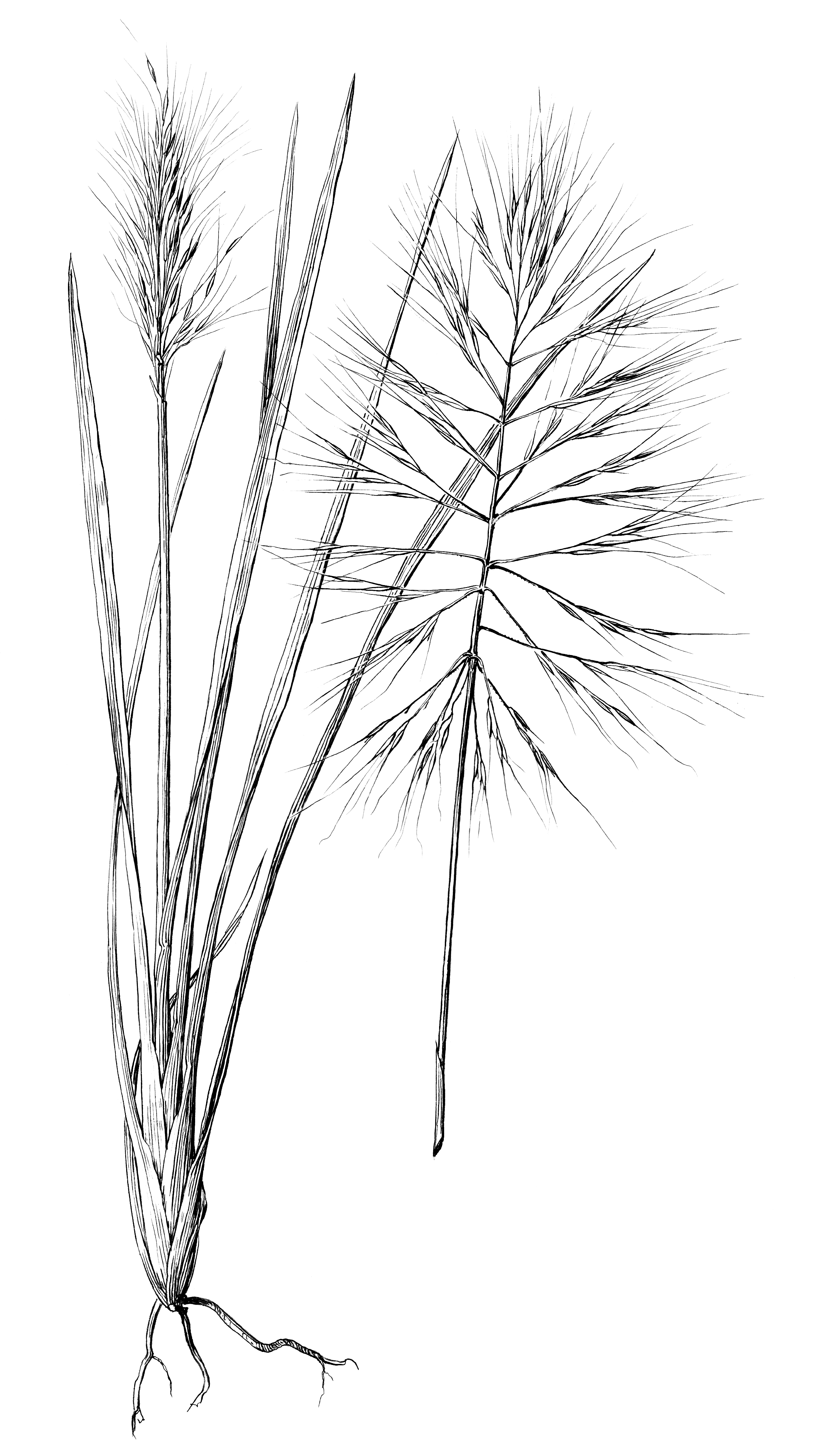 Achlaena piptostachya Griseb., Gramineae